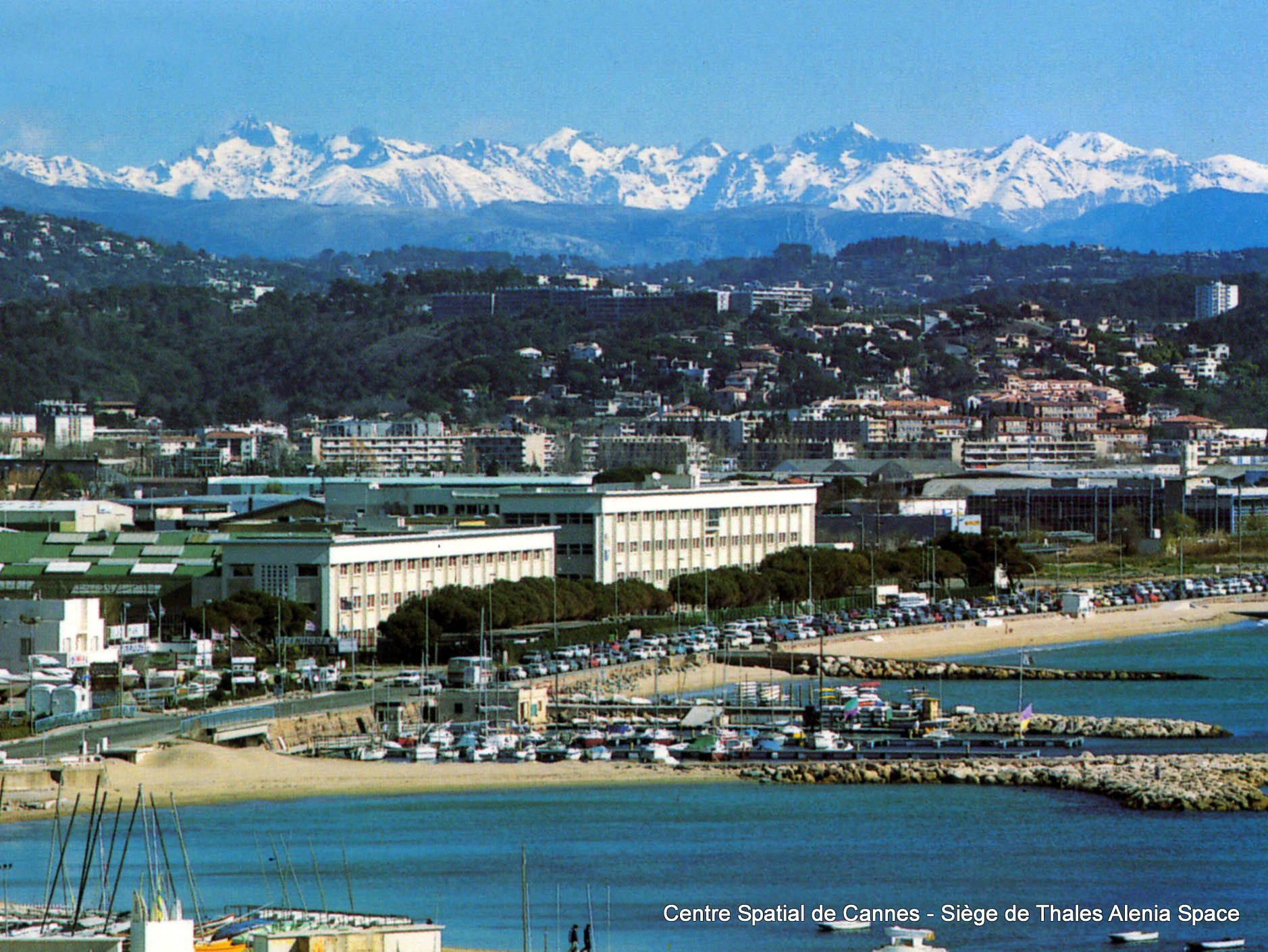 Cannes - Mandelieu Space Center Headquarter of Thales Alenia Space